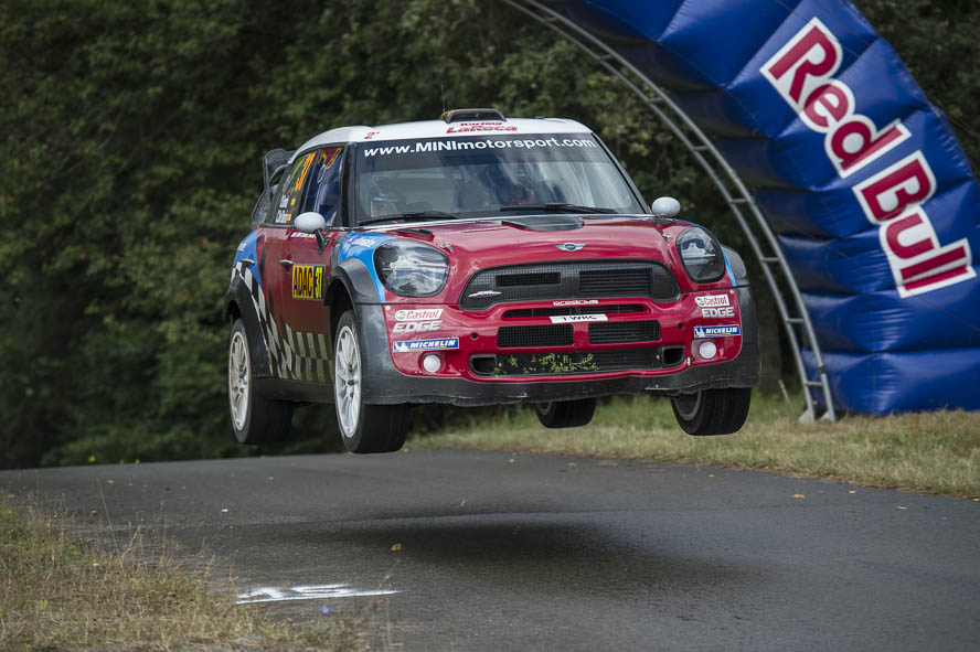 Rally Germany 2012 ADAC Rallye Deutschland,Arena Panzerplatte 1,Carlos del Barrio,Dani Sordo,Gina,Mini John Cooper Works WRC,Motorsport,Prodrive WRC Team,Rally,Rallye,Rallye Deutschland,SS9,WP9,WRC